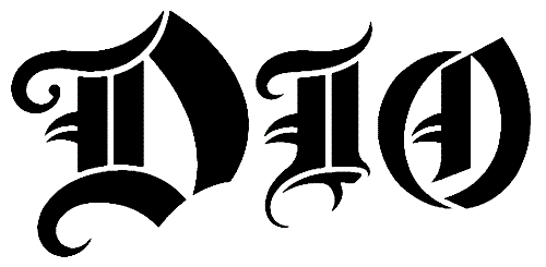 Dio Logo